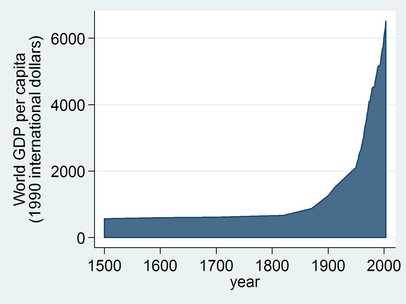 World average GDP per capita 1500 to 2003. Data extracted from Angus Maddison's "World Population, GDP and Per Capita GDP, 1-2003 AD" (Excel file)